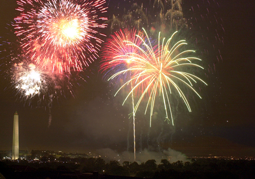 4th of July fireworks on the National Mall, view from the Martin Building (Federal Reserve).